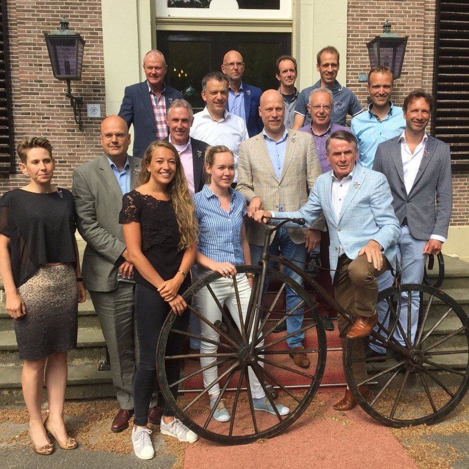 Current board Immer Weiter 1871